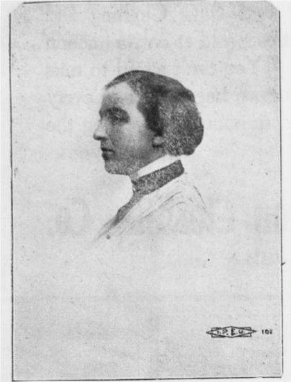 Portrait of Anna Agnes Maley published in the Commonwealth during her gubernatorial campaign in Washington State.